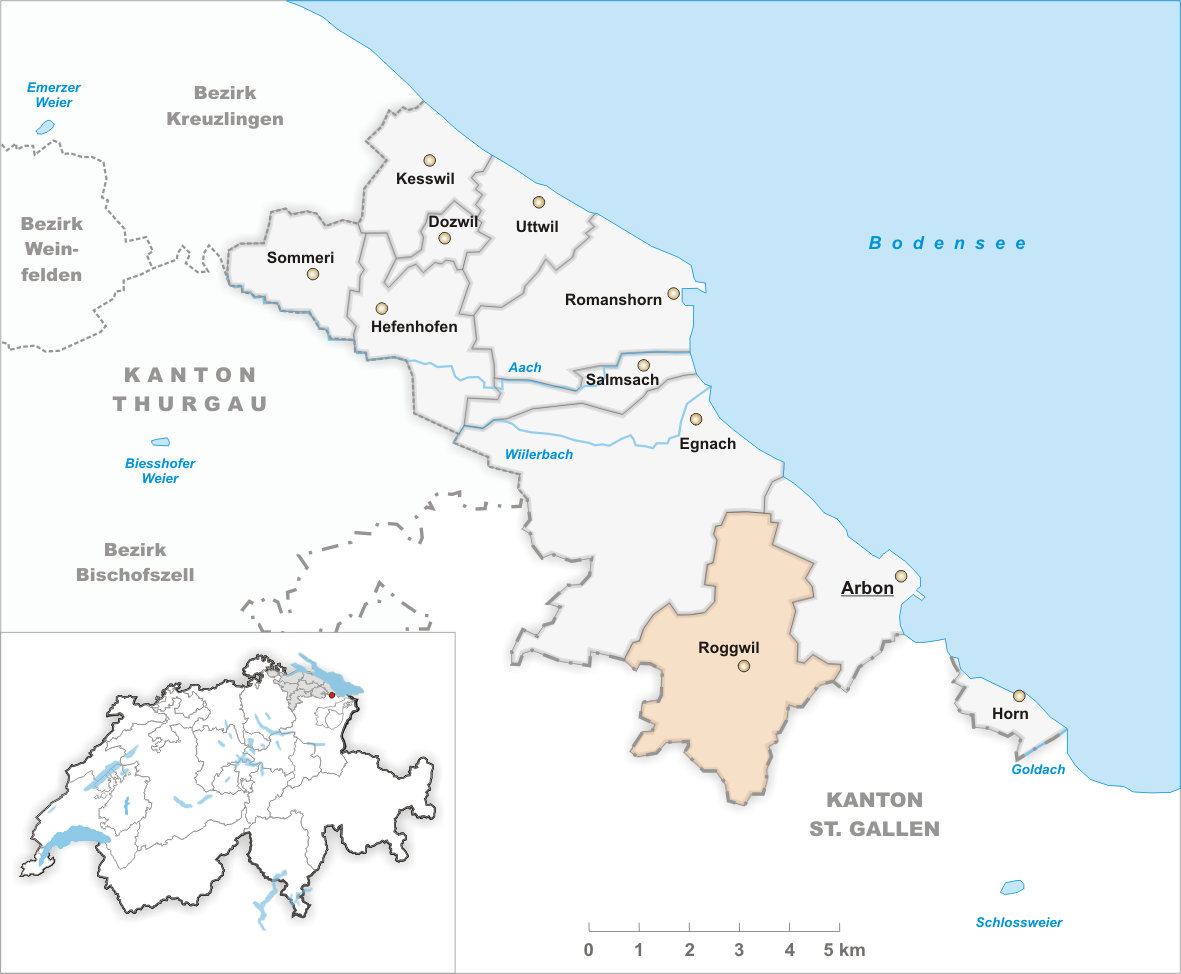 Municipality Roggwil